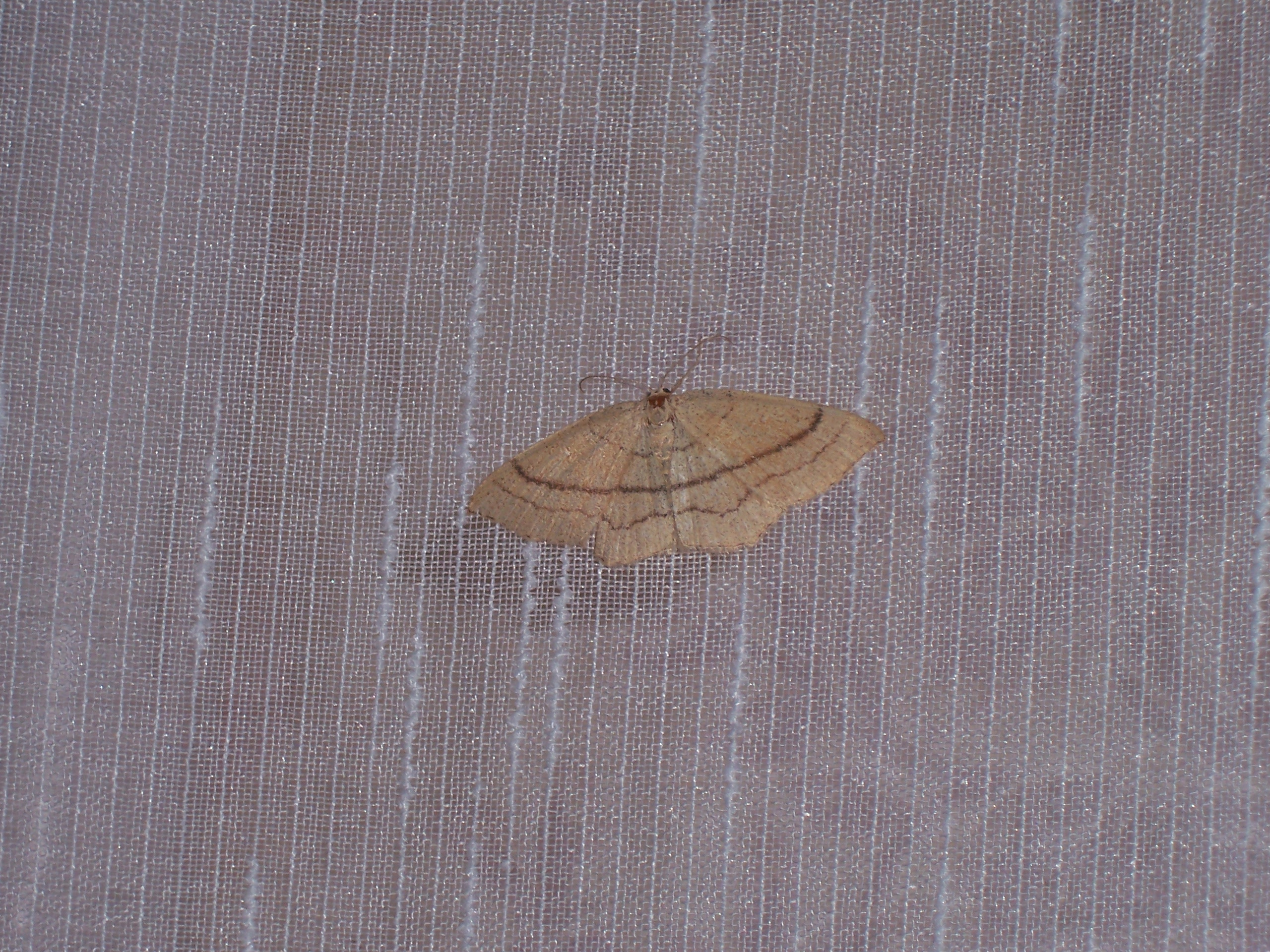 A moth, Cyclophora linearia, photographed in Tbilissi (Georgia)